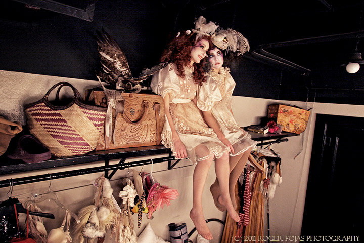 Lucent_Dossier_Experience at The_Cape Premier in Los Angeles, CA_Live Circus_dolls_on a Shelf at the Music Box Theater